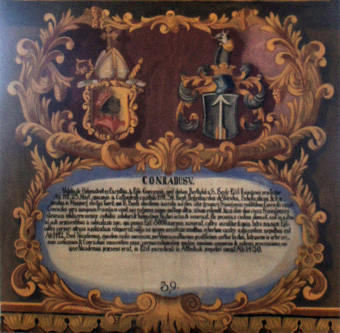 Wappentafel von Konrad V. von Hebenstreit, Fürstbischof von Freising, im Fürstengang zwischen Fürstbischöflicher Residenz und Freisinger Dom. Links das geistliche, rechts das persönliche Wappen, darunter ein lateinischer Text mit kurzer Biographie.